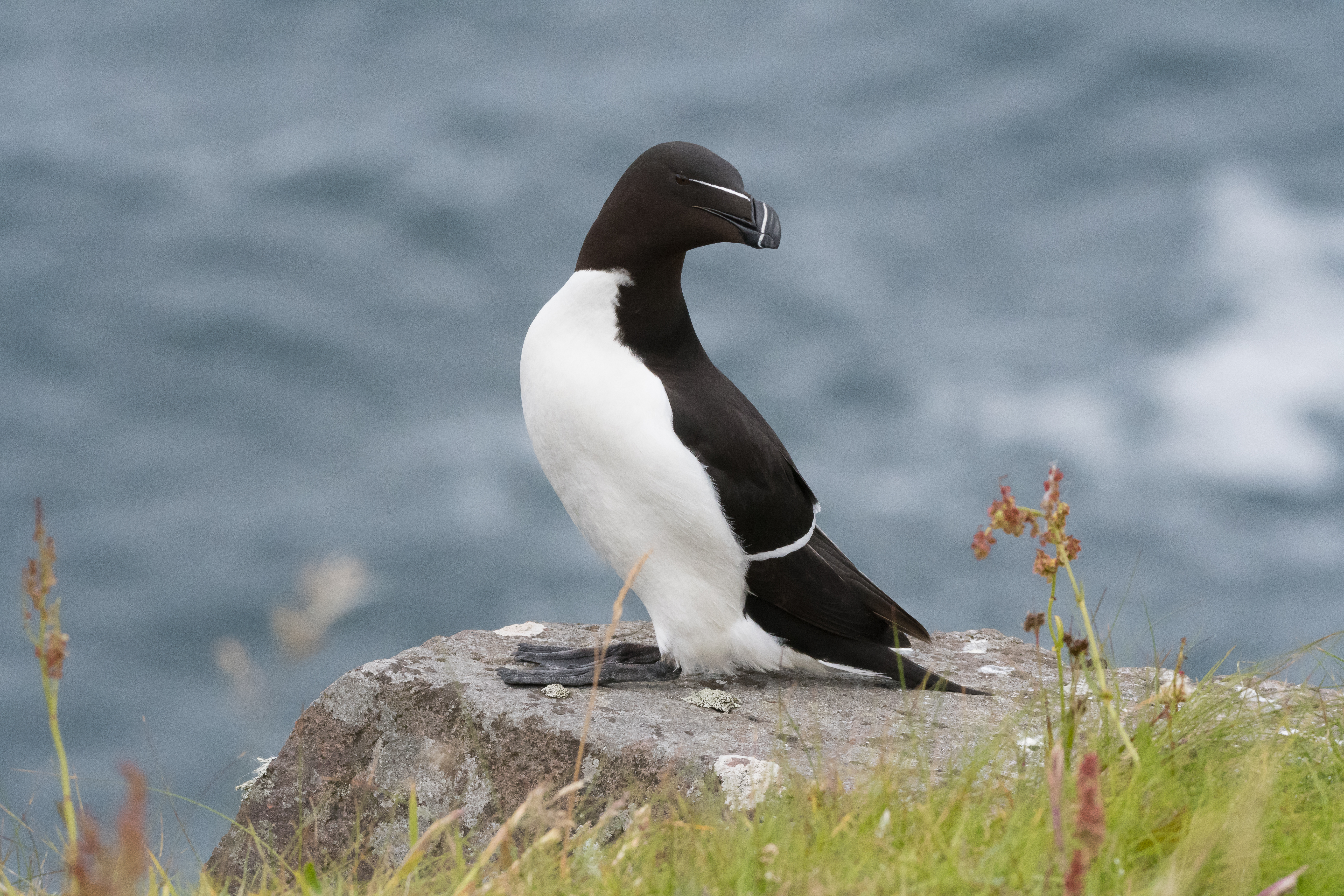 Razorbill (Alca torda) at Handa Island in Scottland